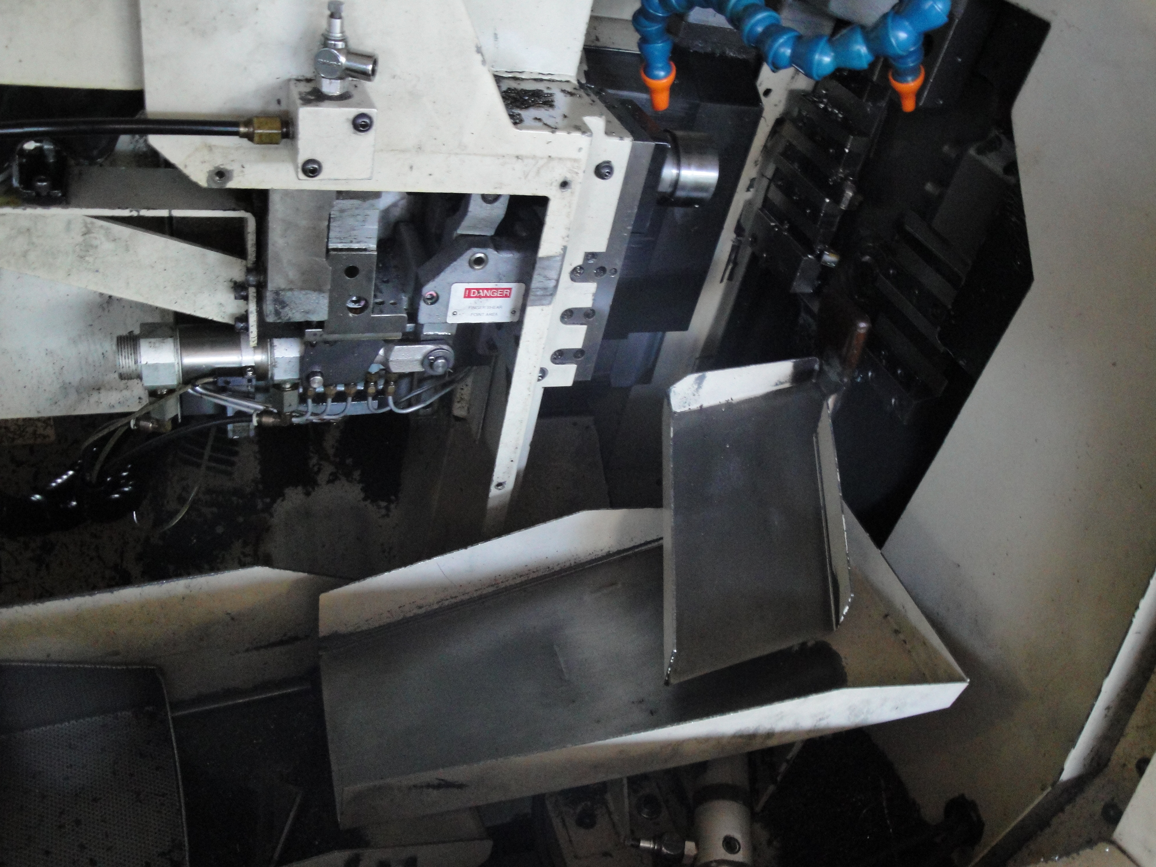 A view inside the enclosure of a CNC Swiss-style screw machine, built circa 1990s or 2000s. A gang of single-point tools slides on either side of the main spindle. The back spindle can take a part from the main spindle and hold it for additional cutting operations on the backside. Finished parts then slide down the ramps into a tray. Depending on the part design, the cycle may be very short, and the finished parts come sliding out at a prodigious rate. The blue-and-orange objects are nozzles that direct a flood of coolant directly into the cutting area.